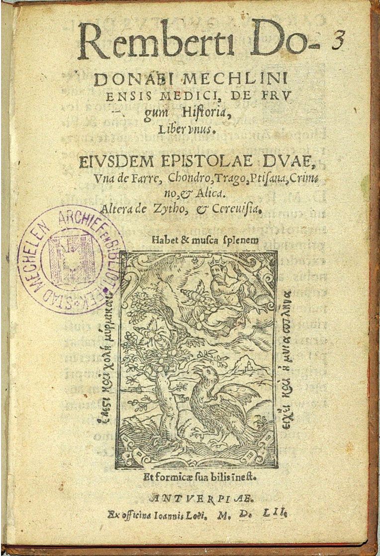 Title page of a book, printed 1552 in Antwerp, illustrating (together with ill. 2) functionality of database Short Title Catalogue Flanders